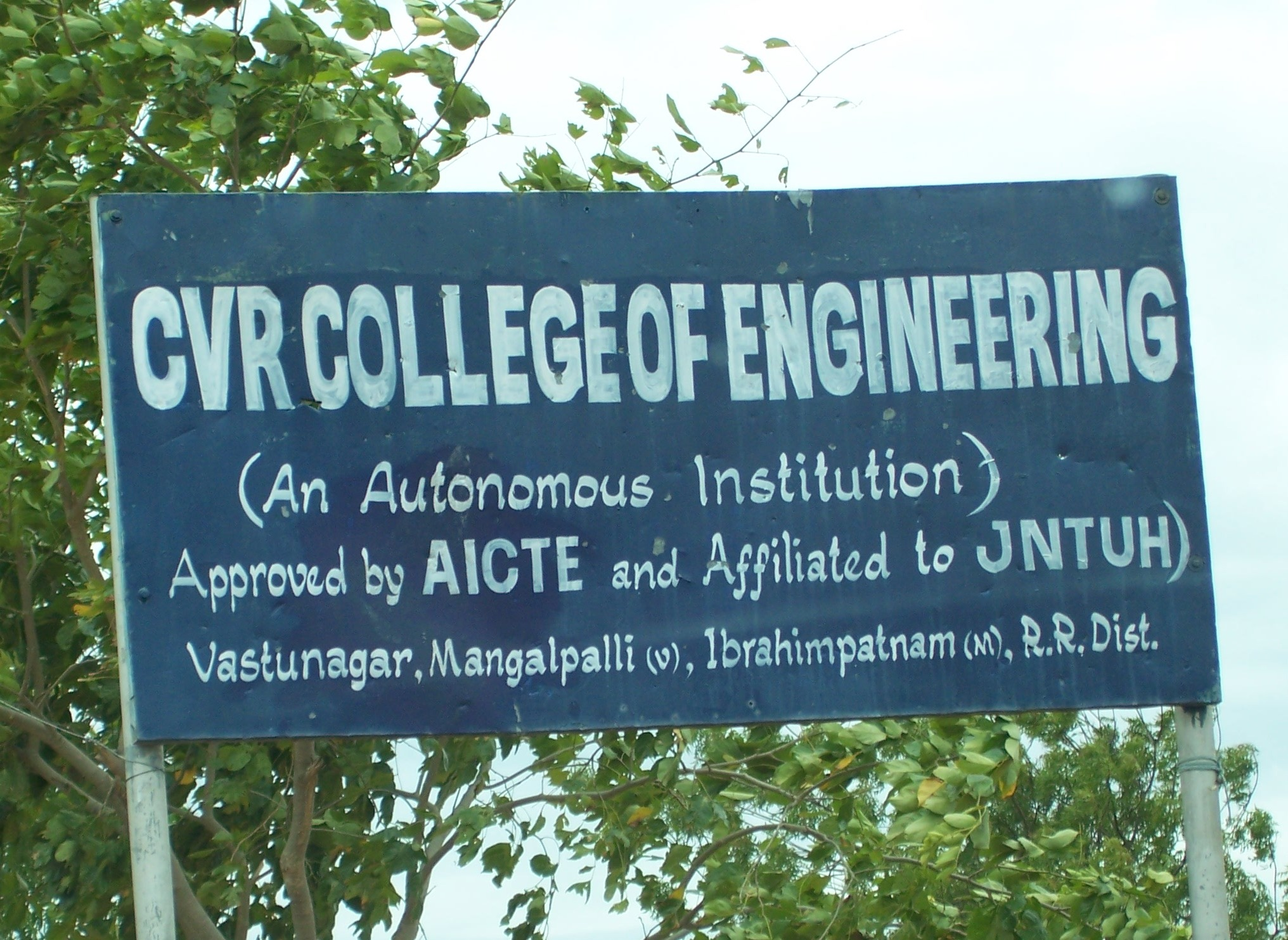 engg. college